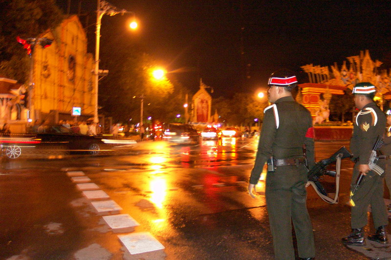 A speeding motorcade of cars. The military leaders on their way from the royal palace as military police look on. Manik Sethisuwan 02:51, 4 February 2007 (UTC)